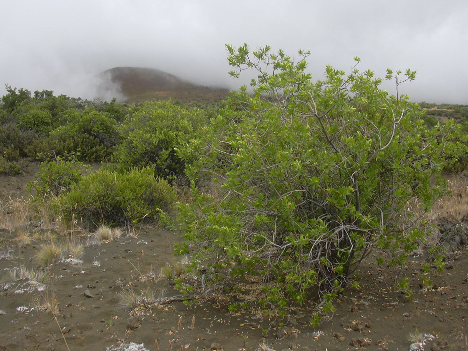 Dubautia arborea (habit). Location: Hawaii, Puu Kole